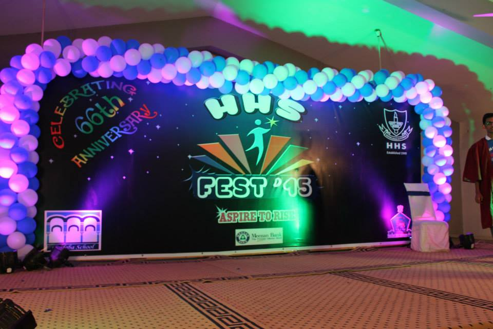 the stage of HHS fest '15